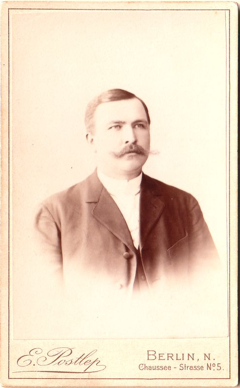 Česlovas Sasnauskas (19 June 1867, Kapčiamiestis – 5 January 1916, Saint Petersburg) was a Lithuanian composer. Sasnauskas worked as an organist in Vilkaviškis and also played in Saint Petersburg upon relocating there in 1891.